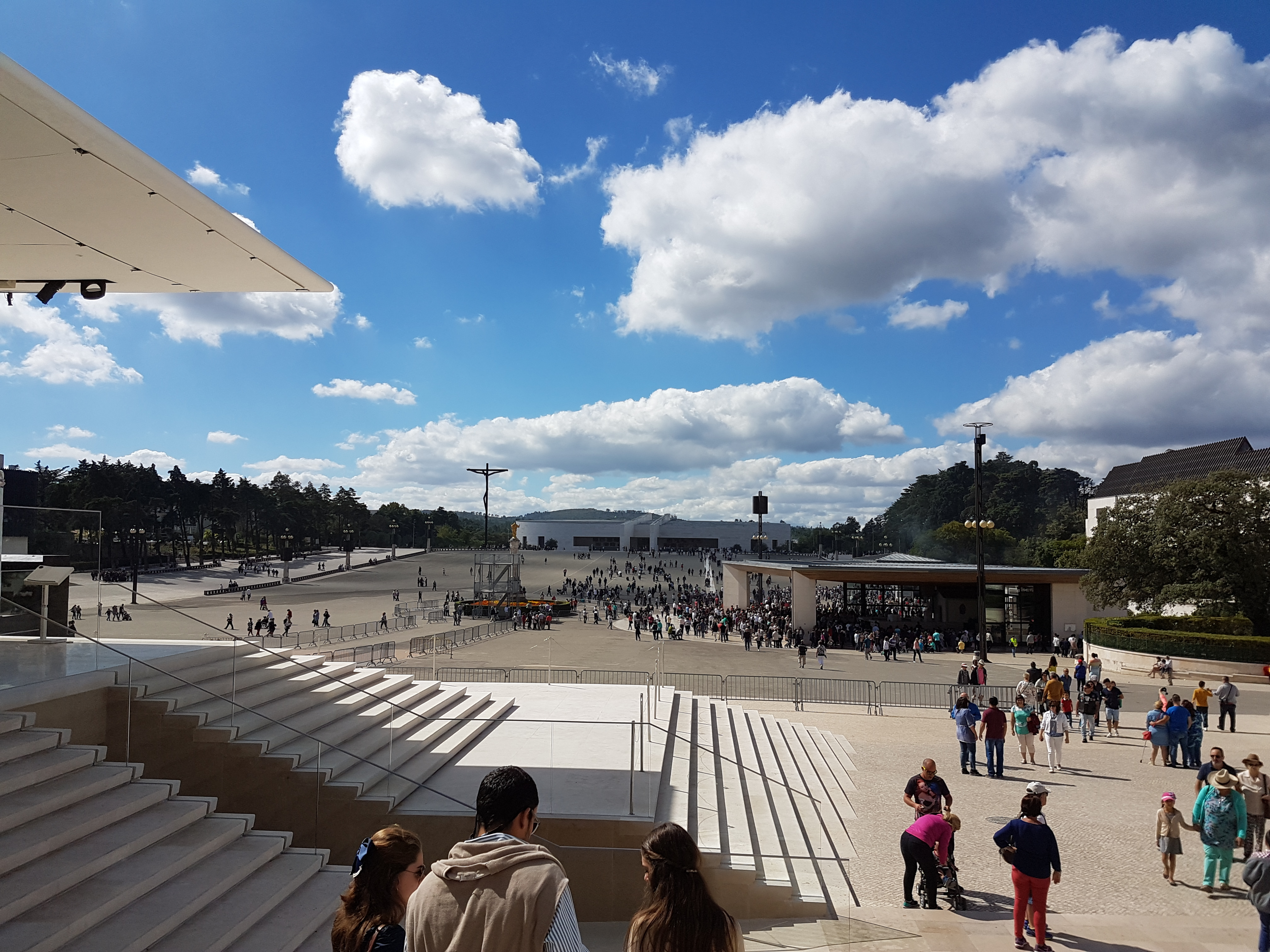 Por favor atribuir créditos a (Please give credit to)